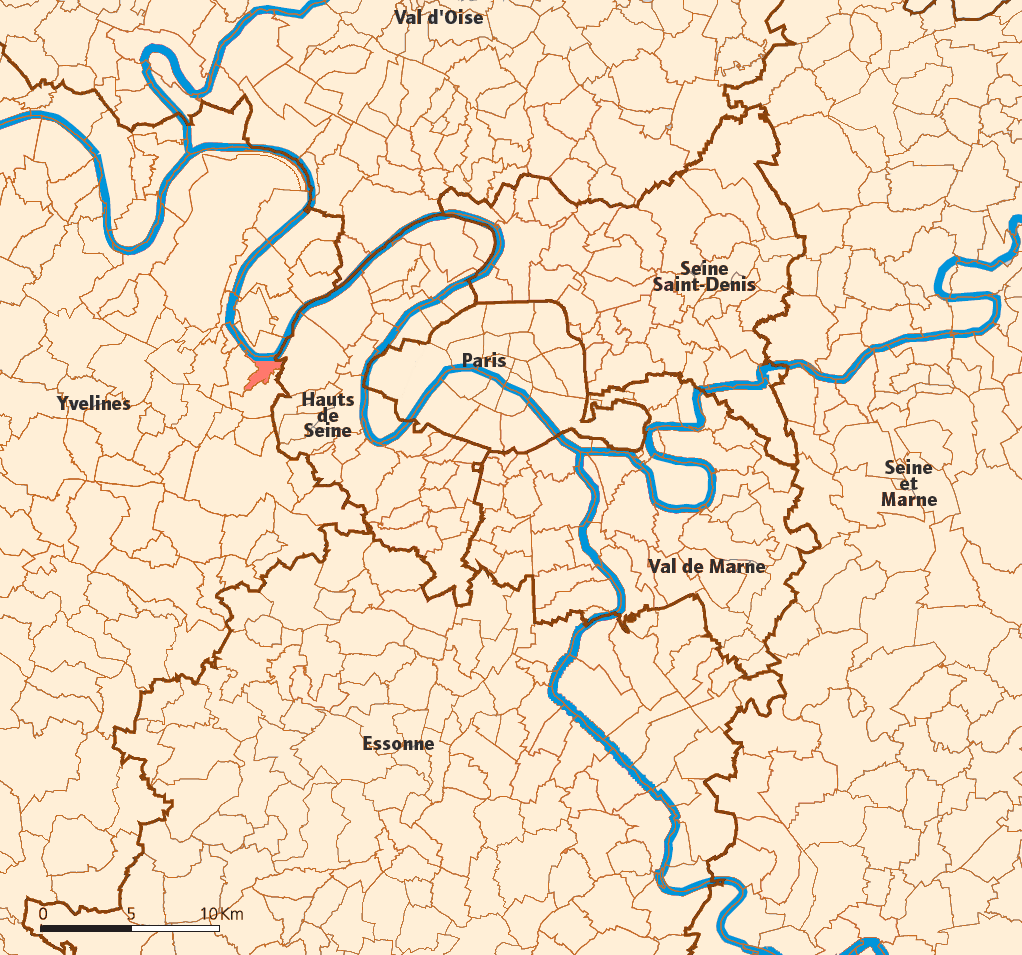 Created map myself.